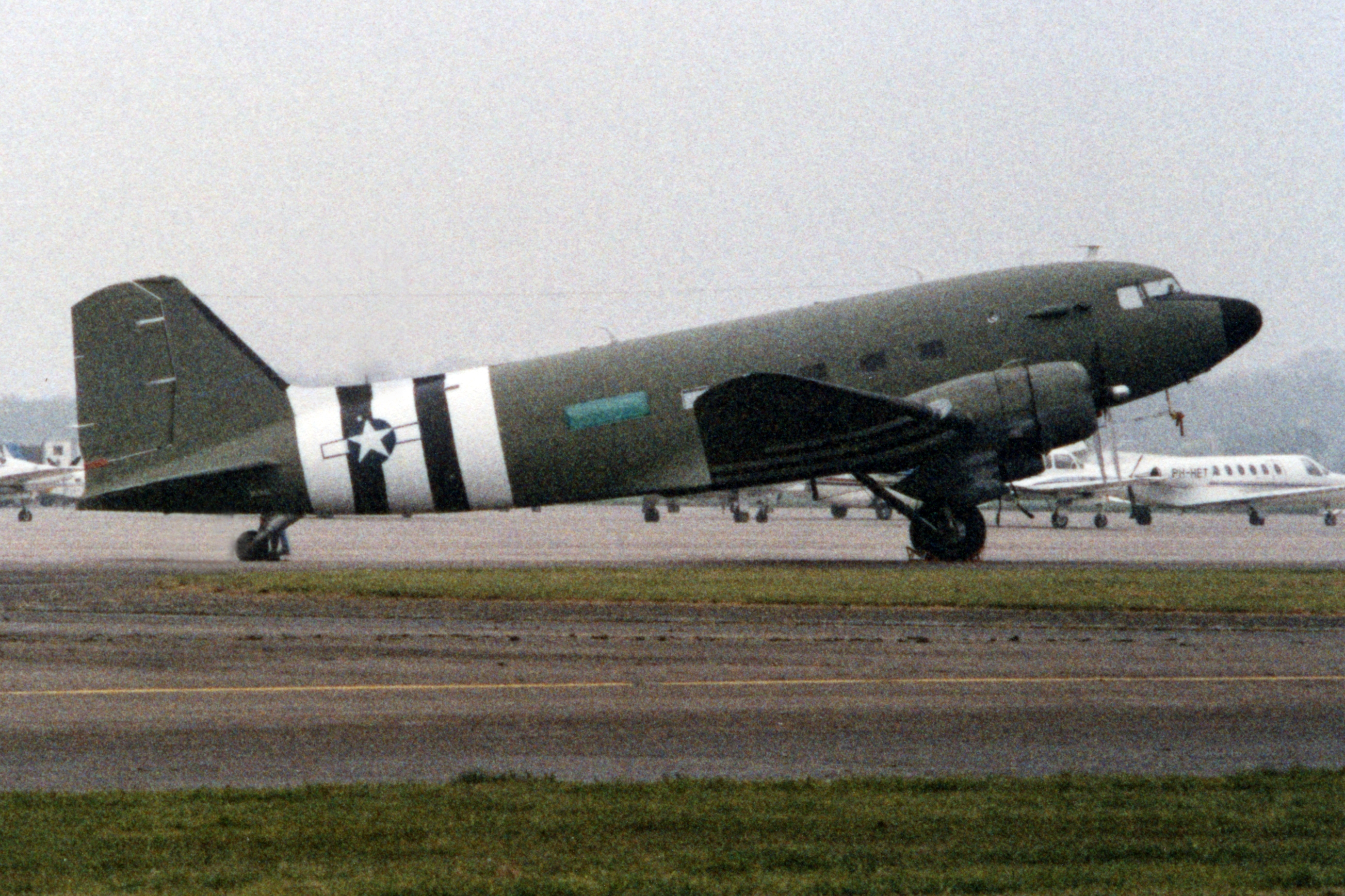 Douglas C-47 Skytrain Photo taken at Rotterdam Airport Airshow, May 1985.